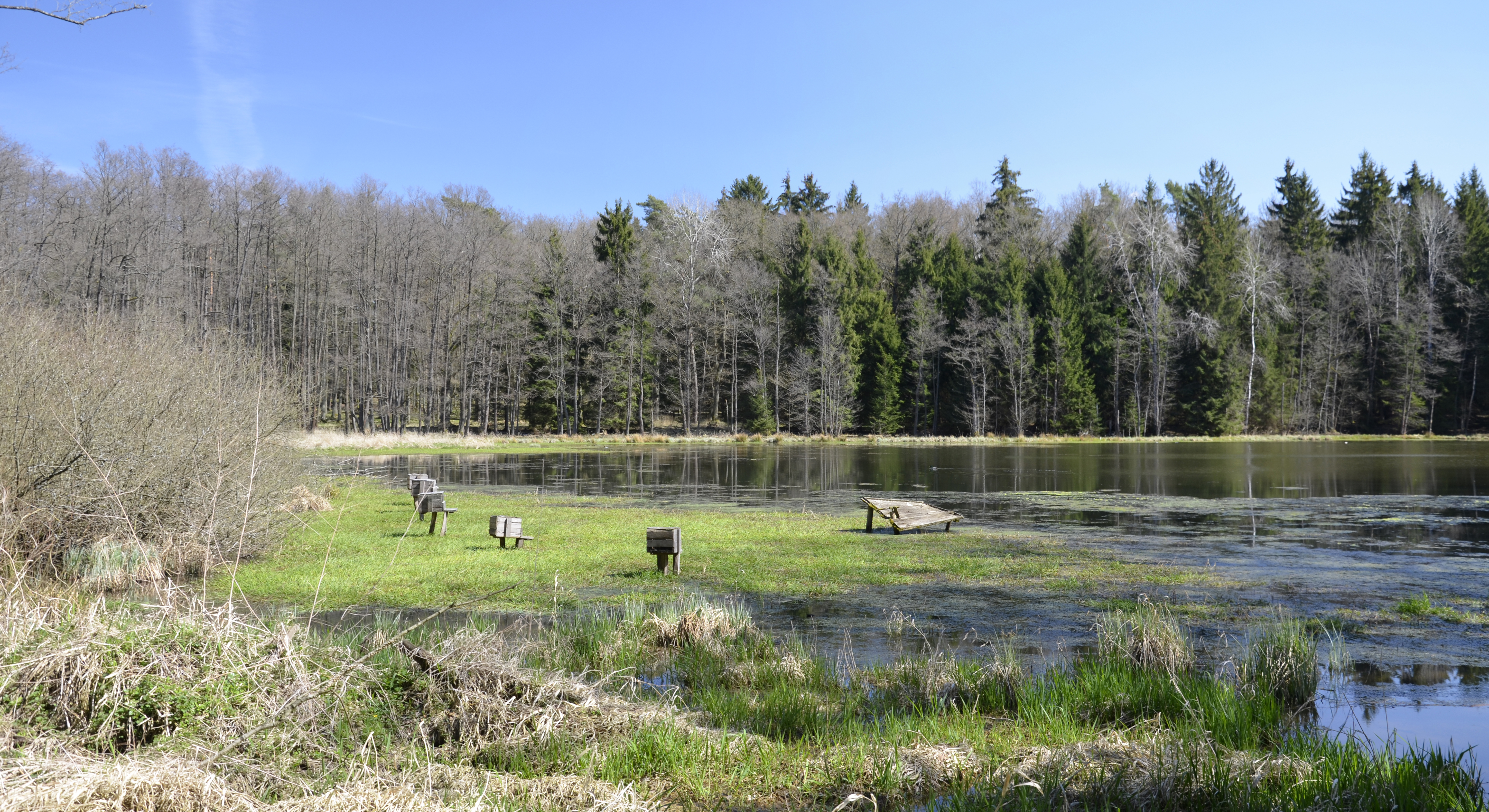 Pond Neslívský rybník (Milínov, Plzeňský kraj, Czechia)